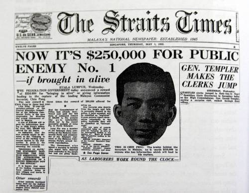 The headline on page 1 of The Straits Times newspaper of 1 May 1952 stating: "NOW IT'S $250,000 FOR PUBLIC ENEMY No. 1—if brought in alive". The person referred to (and pictured) was Chin Peng, a long-time leader of the Malayan Communist Party who led a guerrilla insurgency during the Malayan Emergency and afterwards.